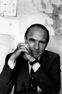 Prince Sadruddin Aga Khan, KBE (Persian: صدرالّدين آغا خان, Ṣadr ad-Dīn Āghā Khān) (17 January 1933 – 12 May 2003) served as United Nations High Commissioner for Refugees from 1966 to 1978.